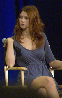 Julie McNiven at the Supernatural Van Con 2009.